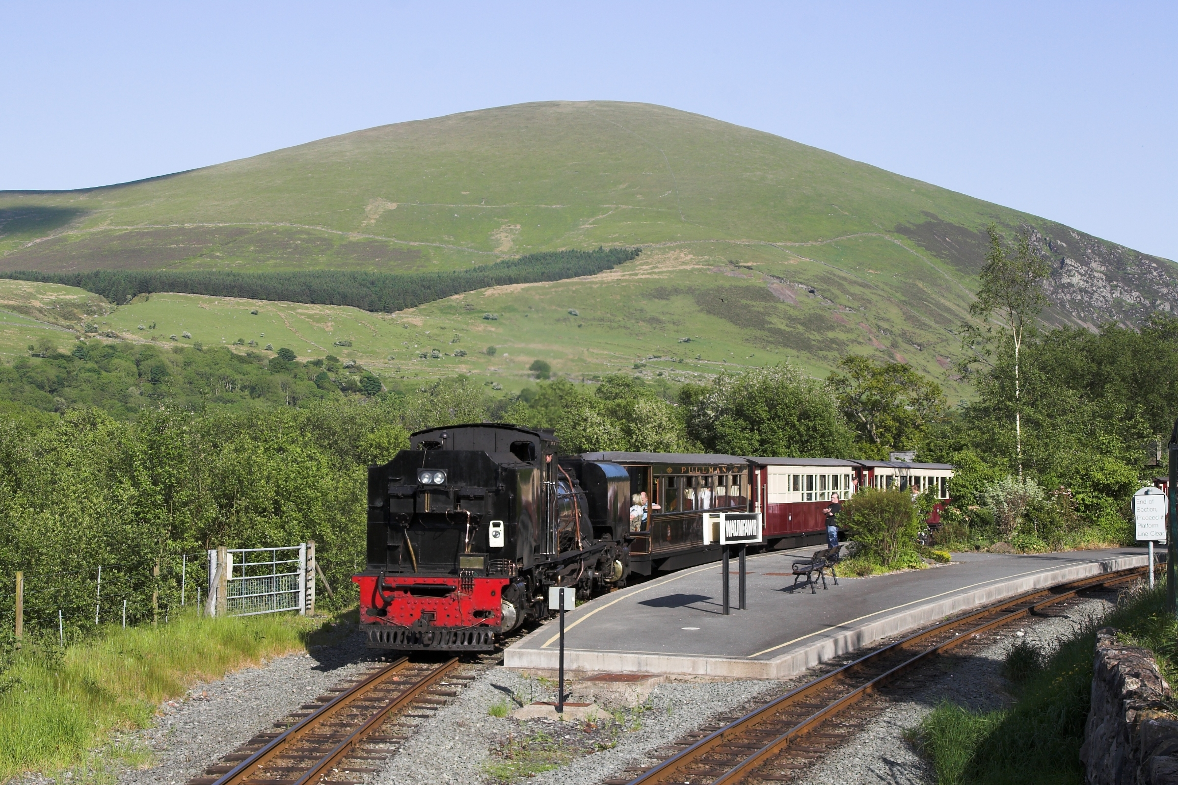 Welsh Highland Railway train leaving Waunfawr in Caernarfon direction.